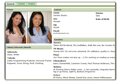 Fivesprckets profile screenshot